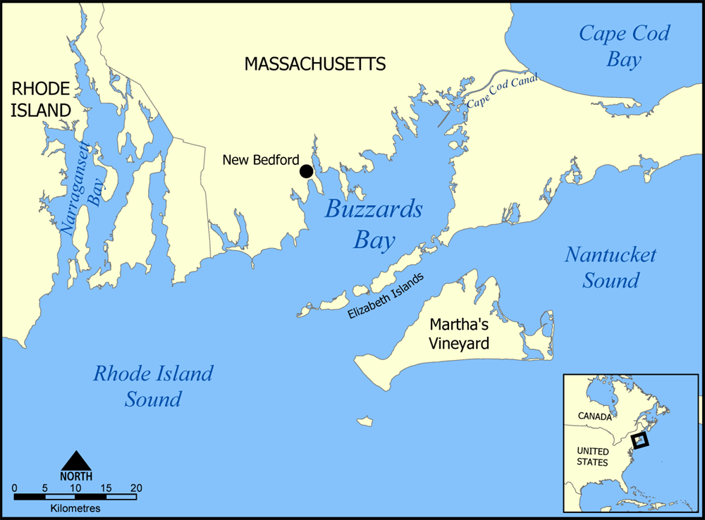 Map of Buzzards Bay off the coast of Massachusetts and Rhode Island, United States.